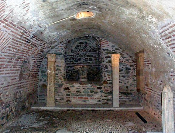 Sculptures from the original 5th-century church and piers with relief decoration, image from the Museum in the Crypt of the Church of St Demetrios, Thessaloniki, Central Macedonia, Greece